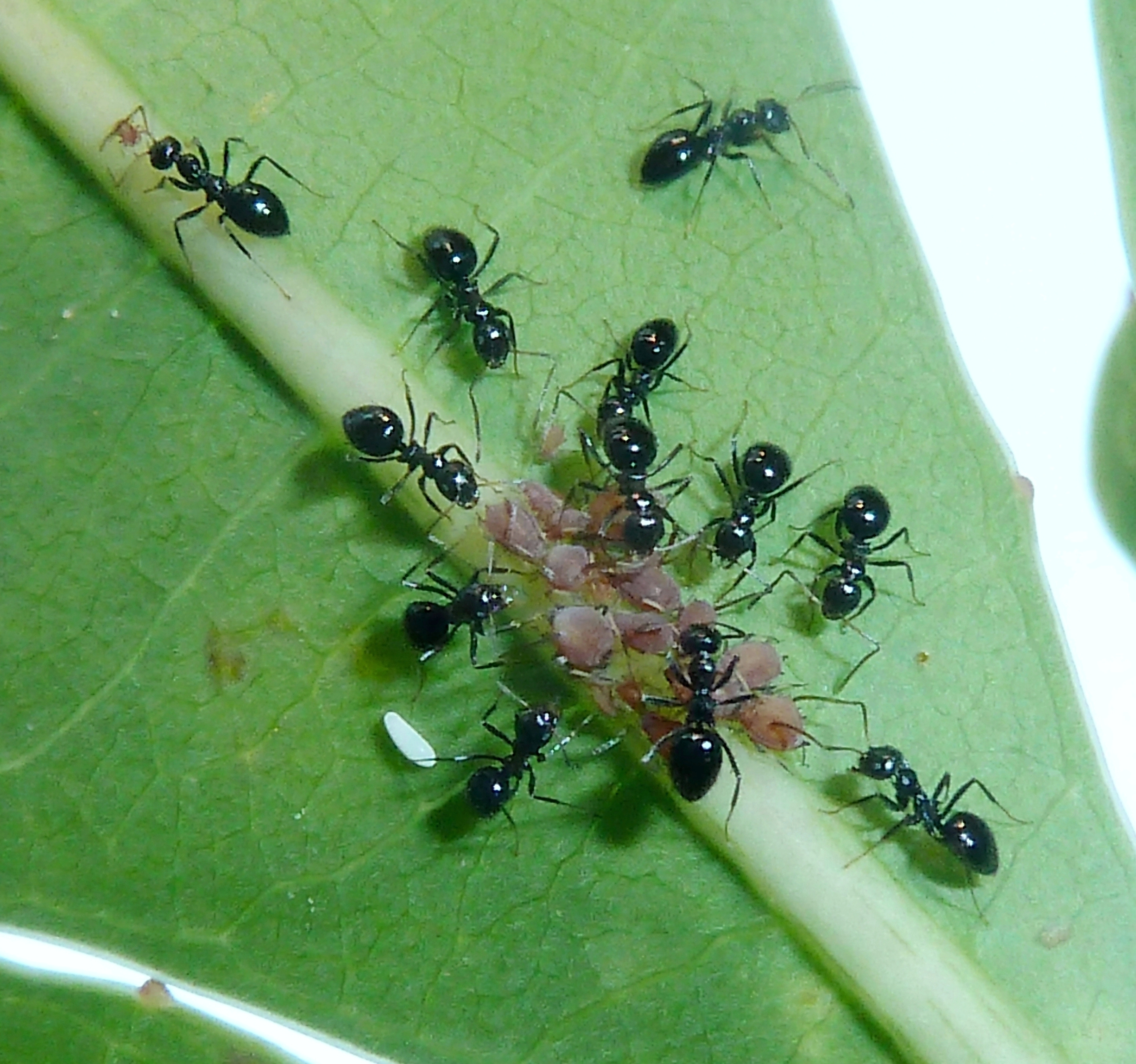 Small black sugar ants milking plant lice that congregated on the main vein of a Cussonia spicata leaf.